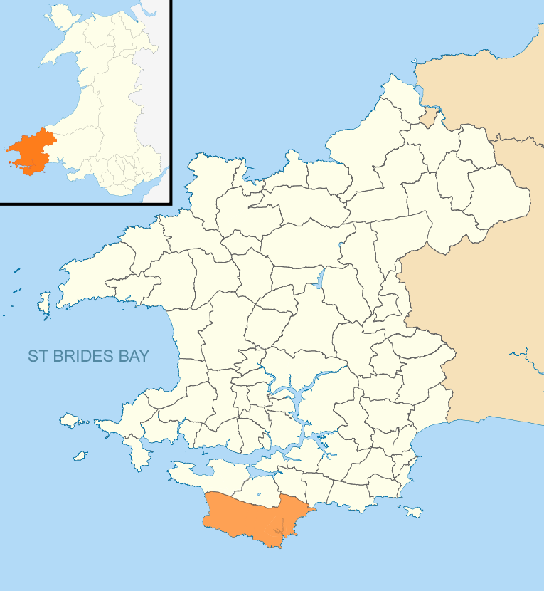 Location map of the post-2012 community (civil parish) of Stackpole and Castlemartin in the south of Pembrokeshire, Wales